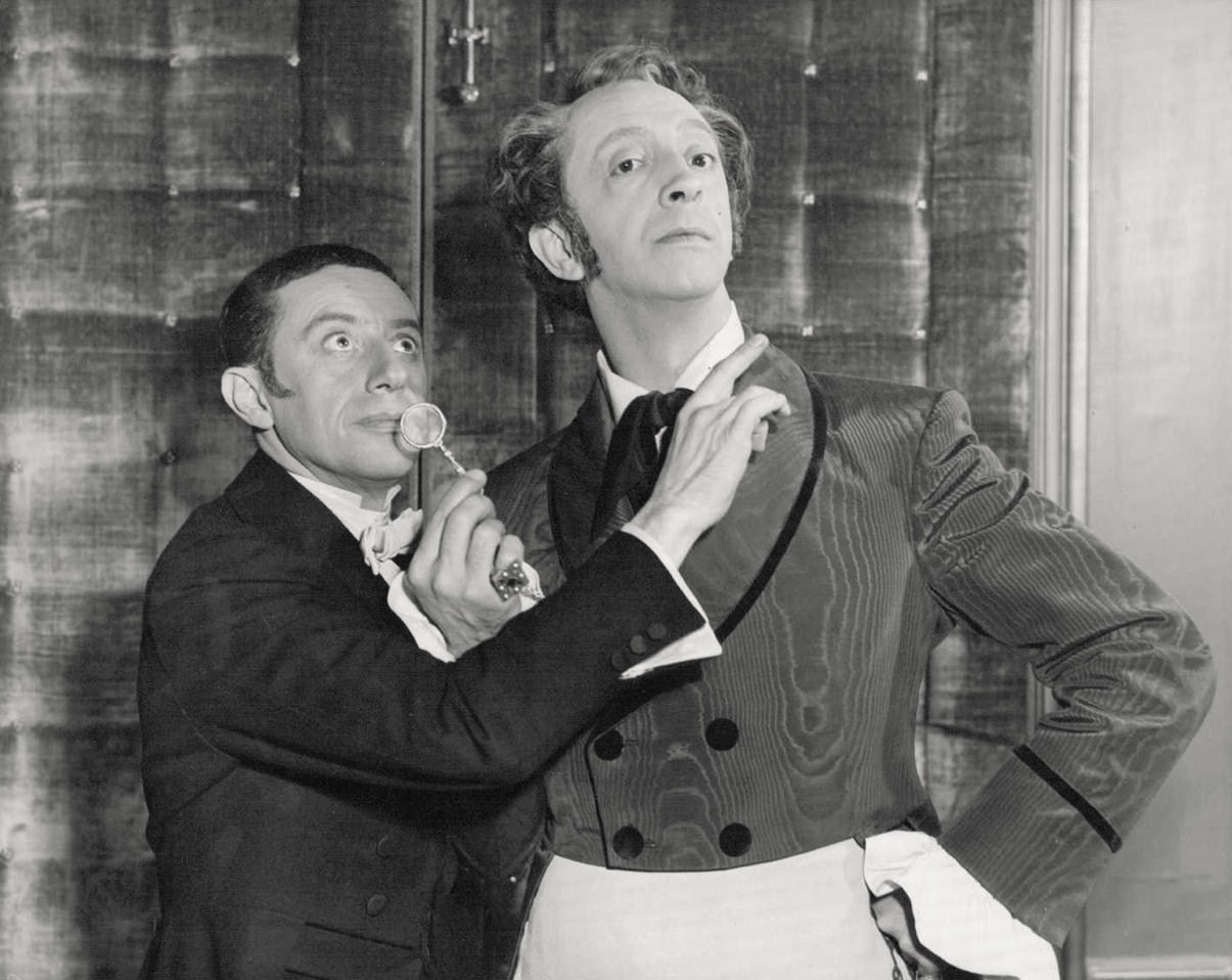 Curt Bois (left) & John Abbott in The Woman in White - publicity still (cropped)